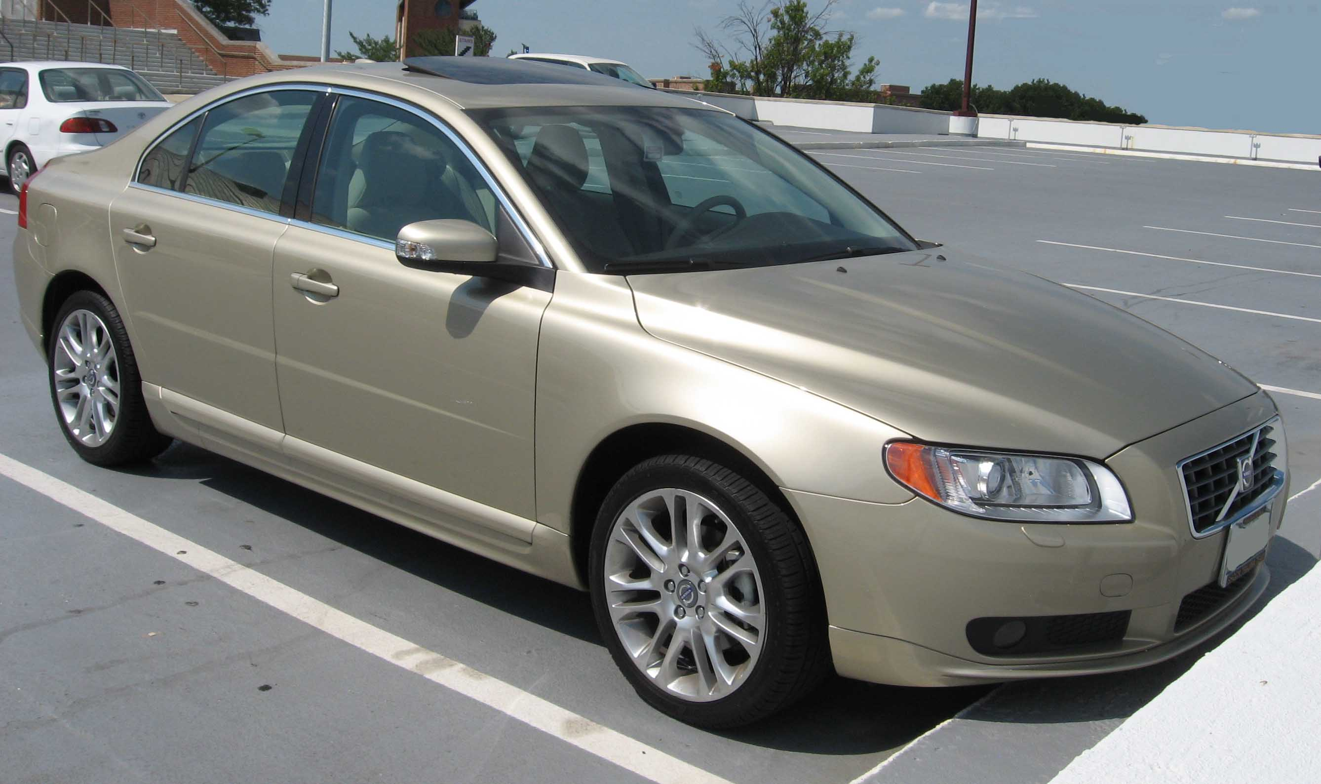 2007 Volvo S80 photographed in College Park, Maryland, USA.